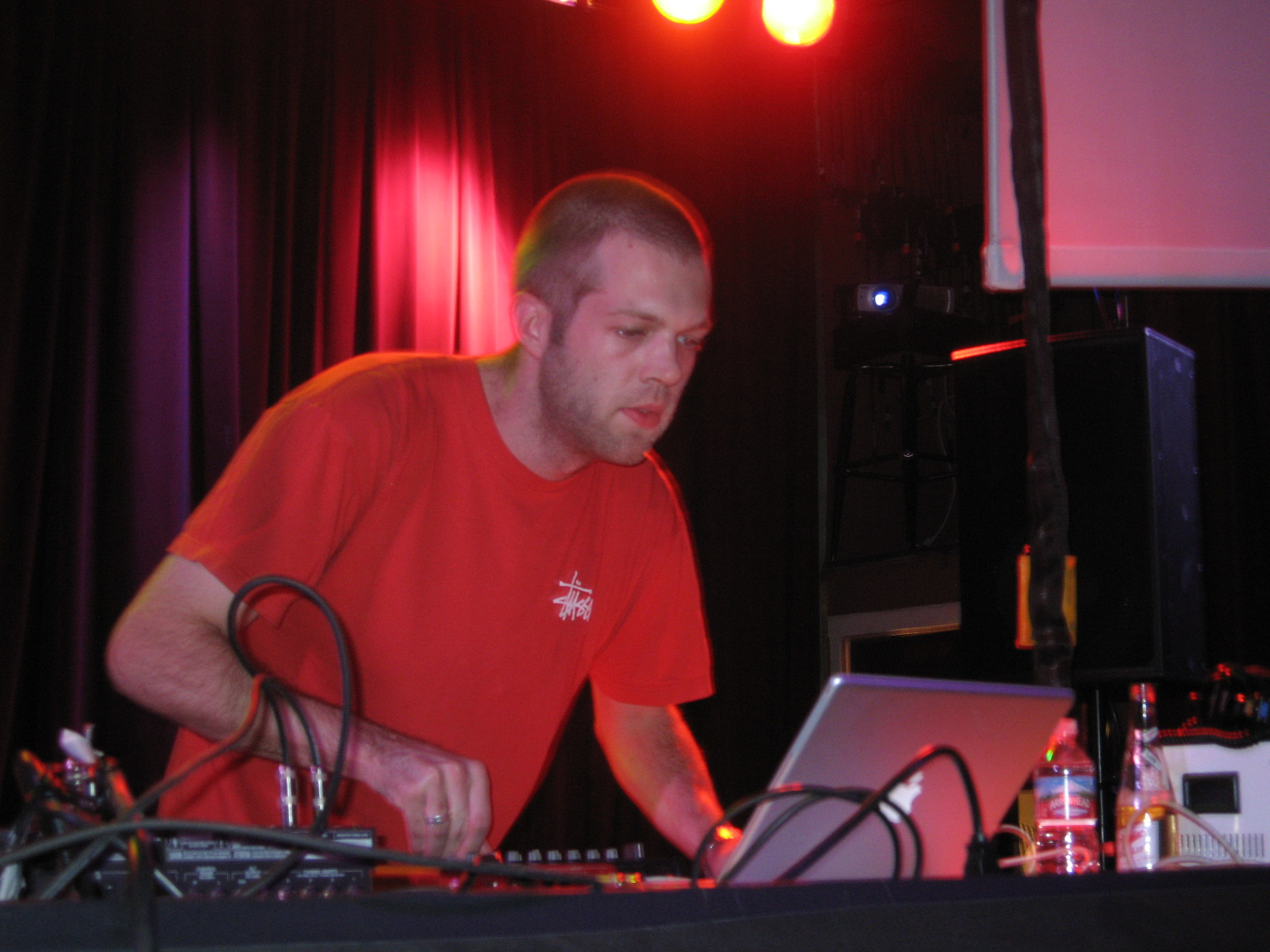 Alex Smoke live at the Decibel Festival in Seattle.